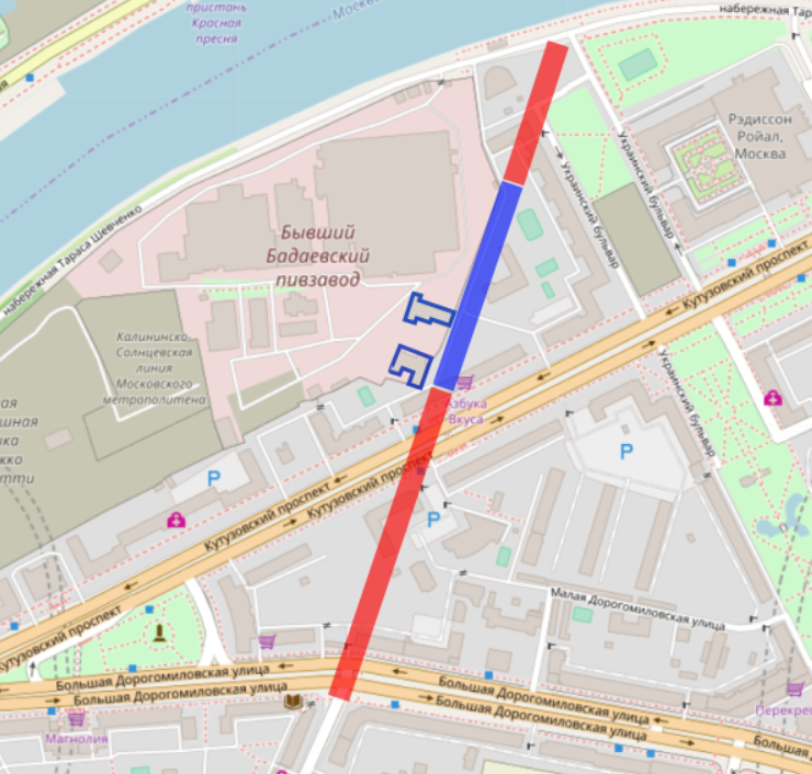 Route of former Dorogomilovsky Val Street (Moscow) overlaid on present-day map This cut-out may be incomplete, and may contain errors, or may be obsolete. Don't rely solely on it for navigation. Seek for the present state in original context on the OpenStreetMap wiki page